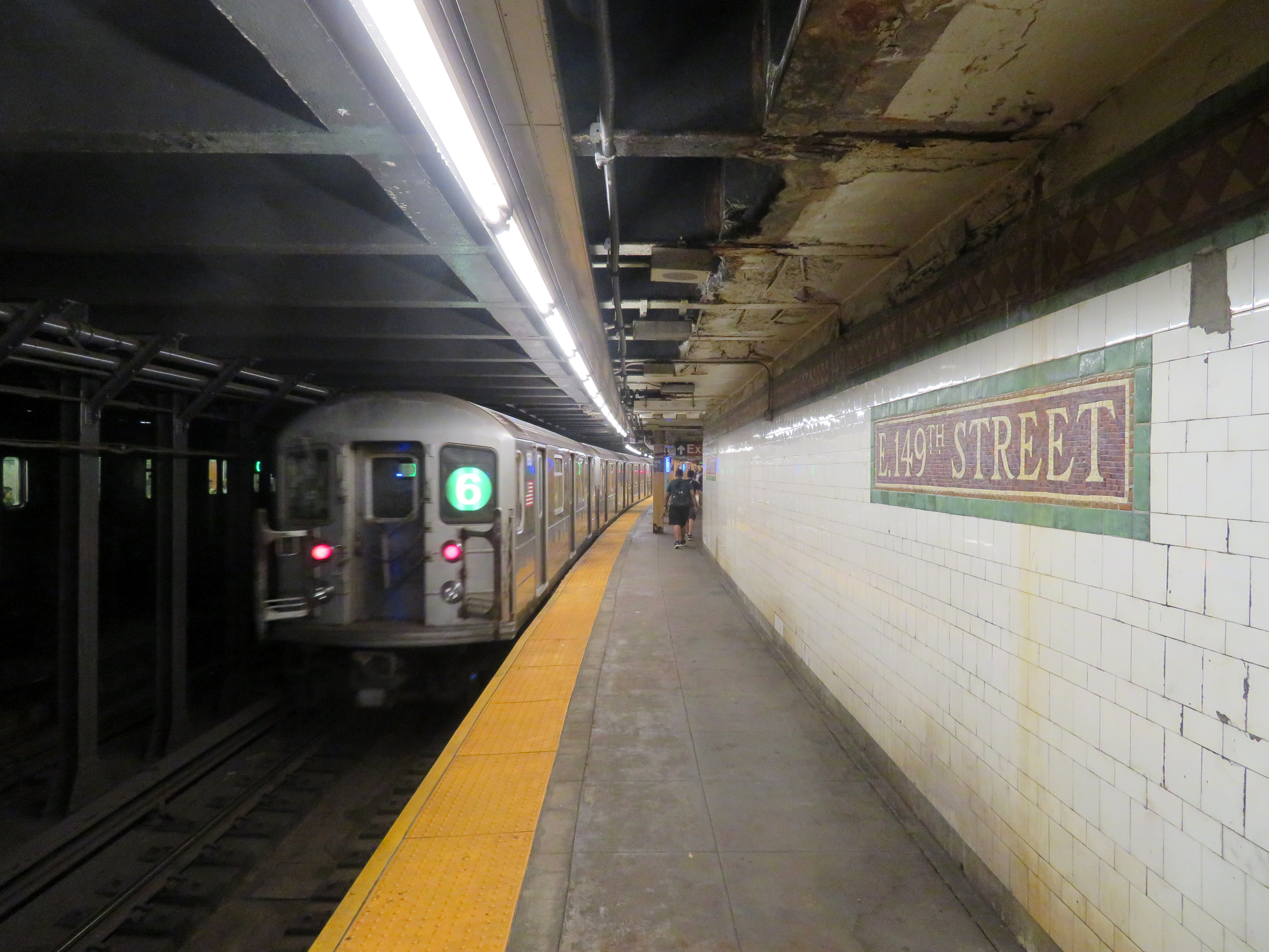 An uptown 6 train leaving East 149th Street station in September 2018